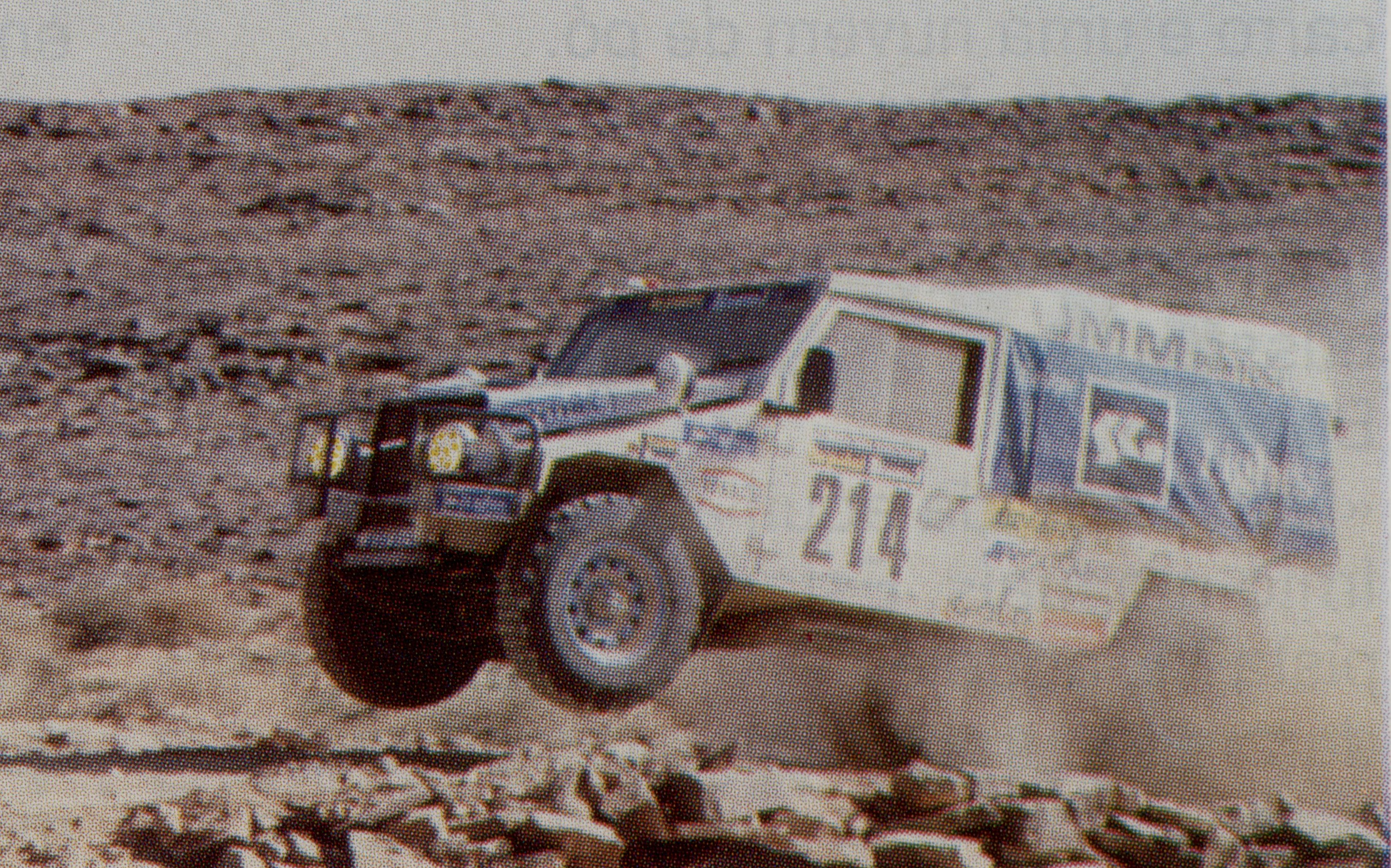 UMM Dakar 1983